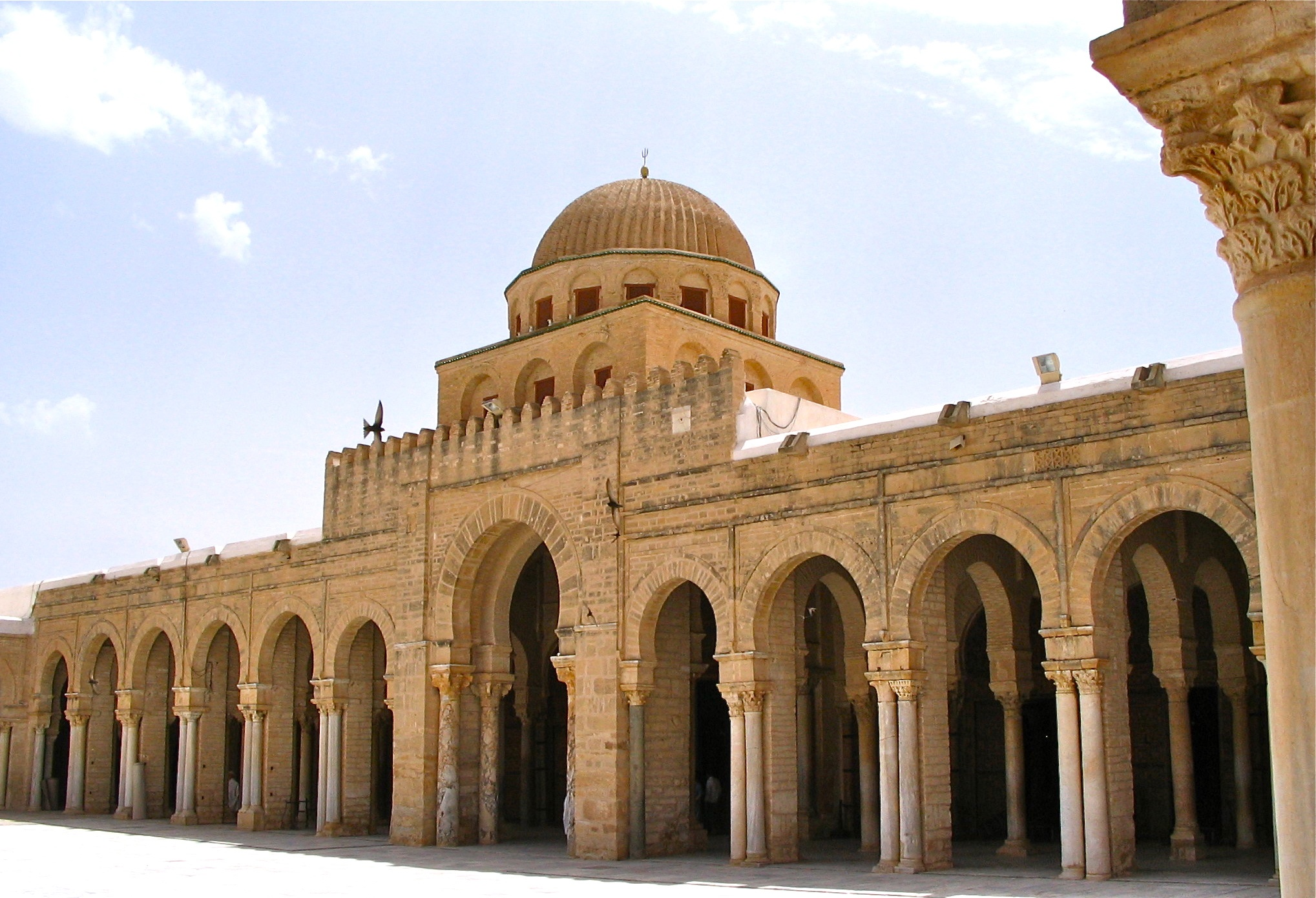 Facade of the prayer hall in the Great Mosque of Kairouan (Tunisia). This mosque, also called the Mosque of Uqba, was founded in 670 AD, but dates in its present form from the 9th century.